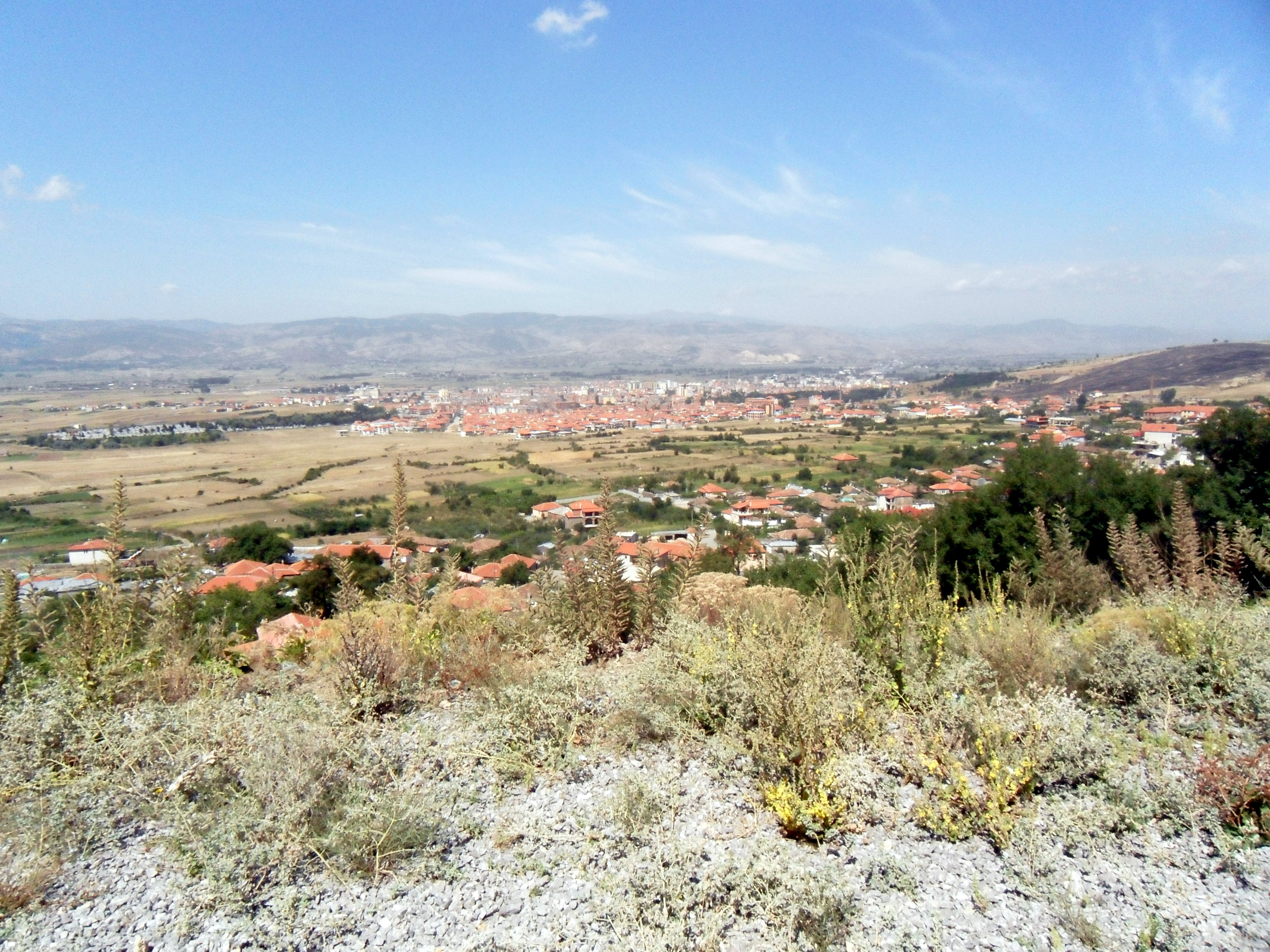 Panorama of Korçë in Mborje